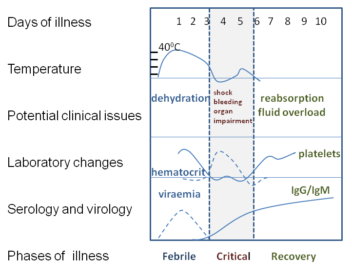 The course of Dengue illness. Based on WHO Guidelines, 2009